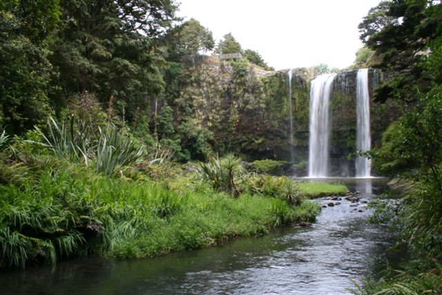 Whangarei Falls in New Zealand. Photo by Simon Fearby , Whangarei_Falls.jpg, found here.